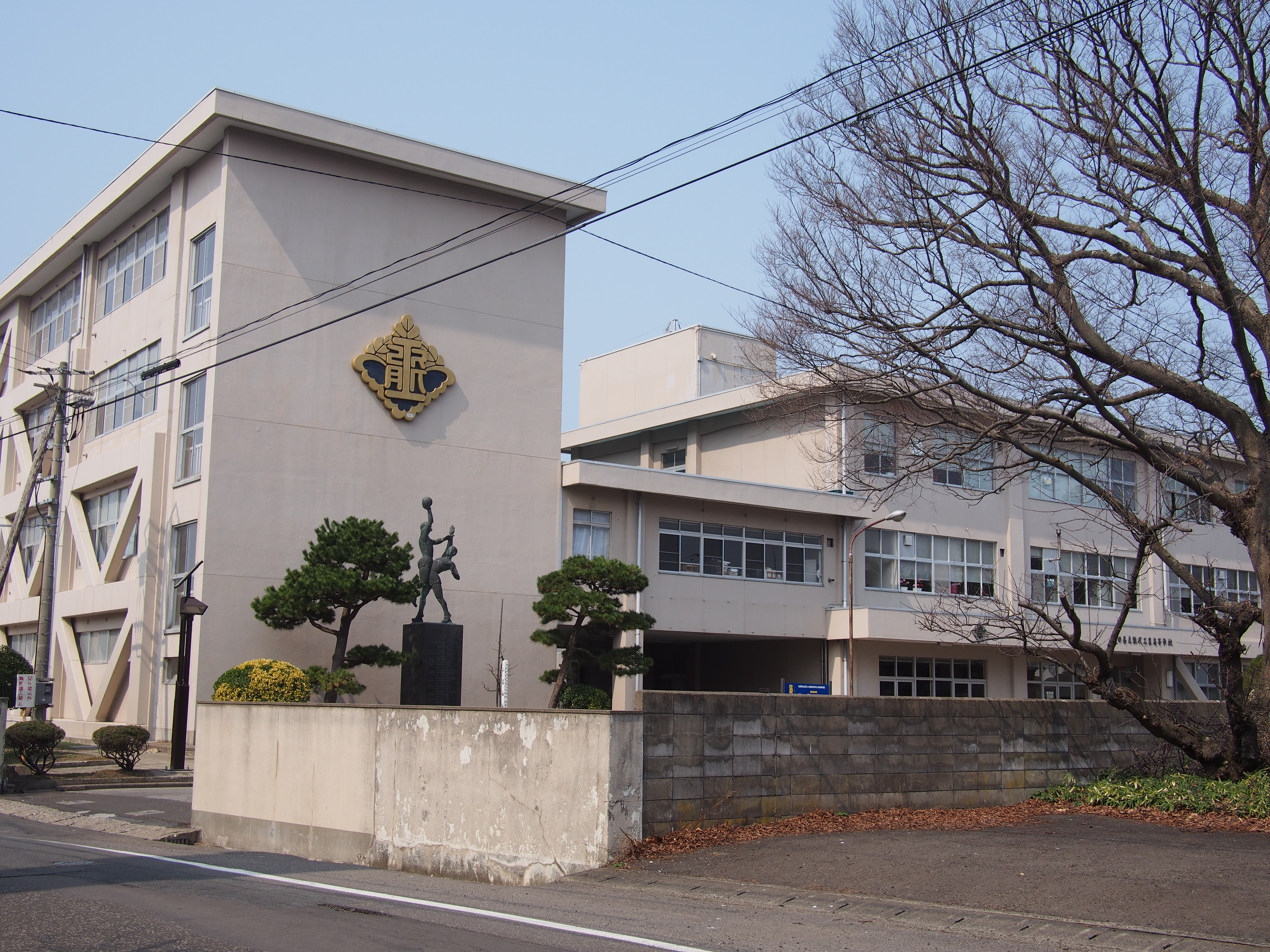 Noshiro Technical High School